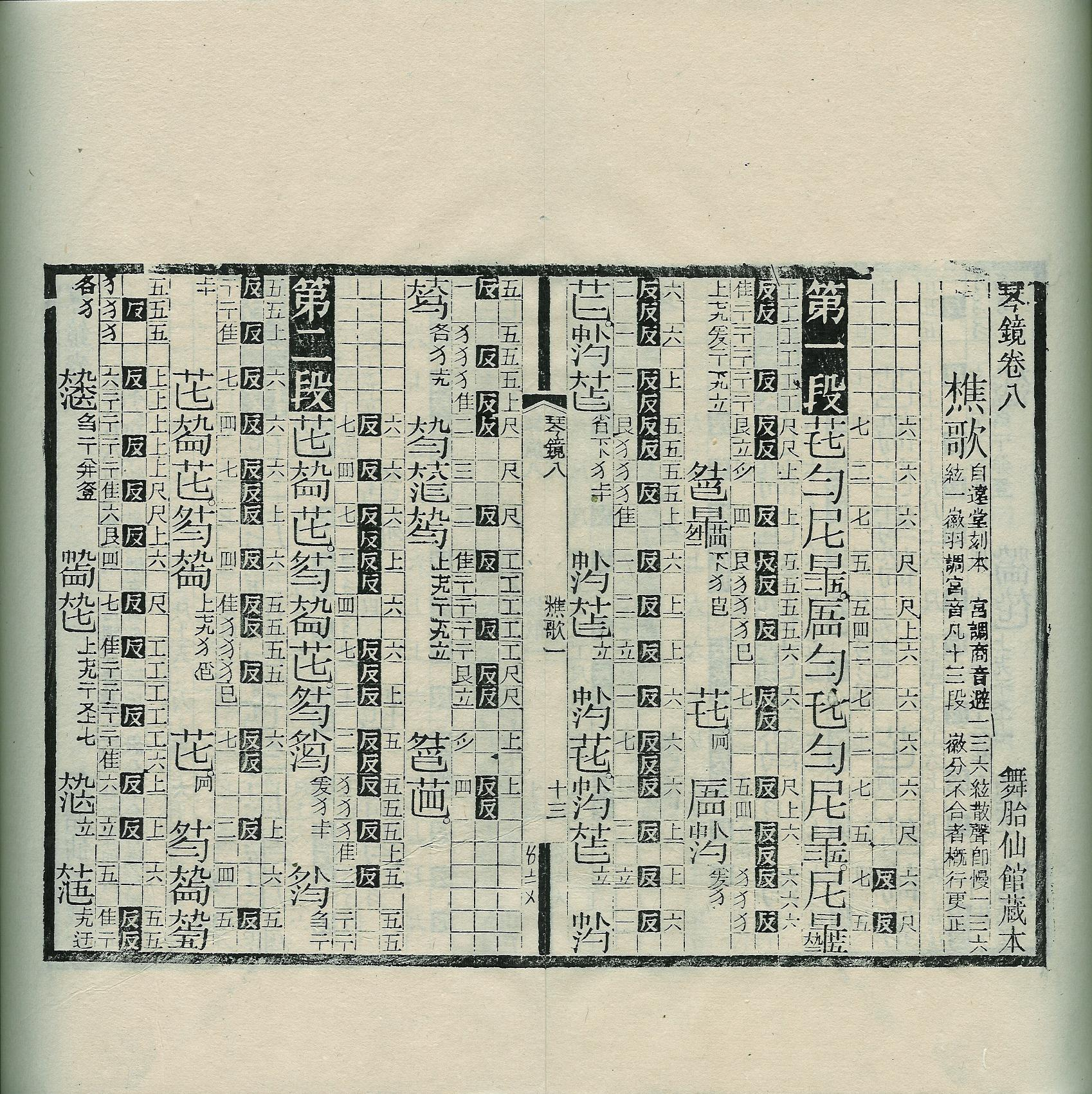 Rendered scan of one leaf of the eighth volume of Qinxue Congshu (1910). The melody is called "Qiao Ge" (The Woodcutter's Song).